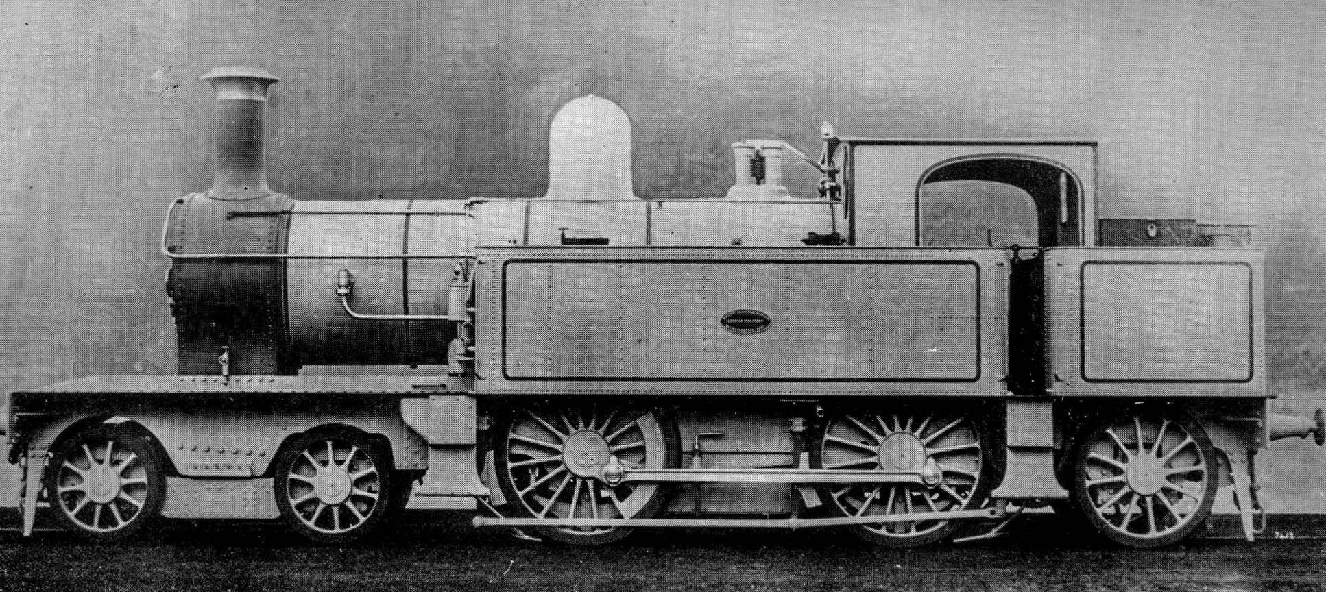 NSWGR M.40 Class Locomotive 4-4-2T Passenger Type